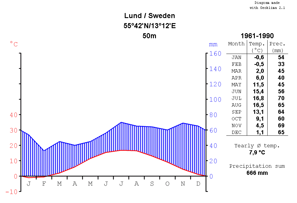 climate chart of Lund, Sweden, for the period of time from 1961 to 1990, in the format by Walter and Lieth, metric, °Celsius and millimeters, chart made with Geoklima 2.1, label in English